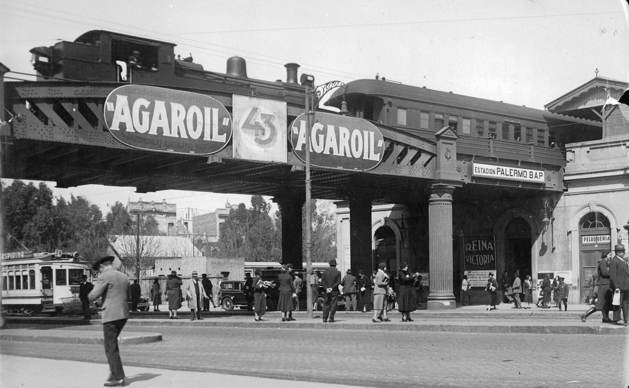 The Argentine "Puente Pacífico", a bridge over the Santa Fe Avenue. A Buenos Aires and Pacific Railway train is running on the bridge.